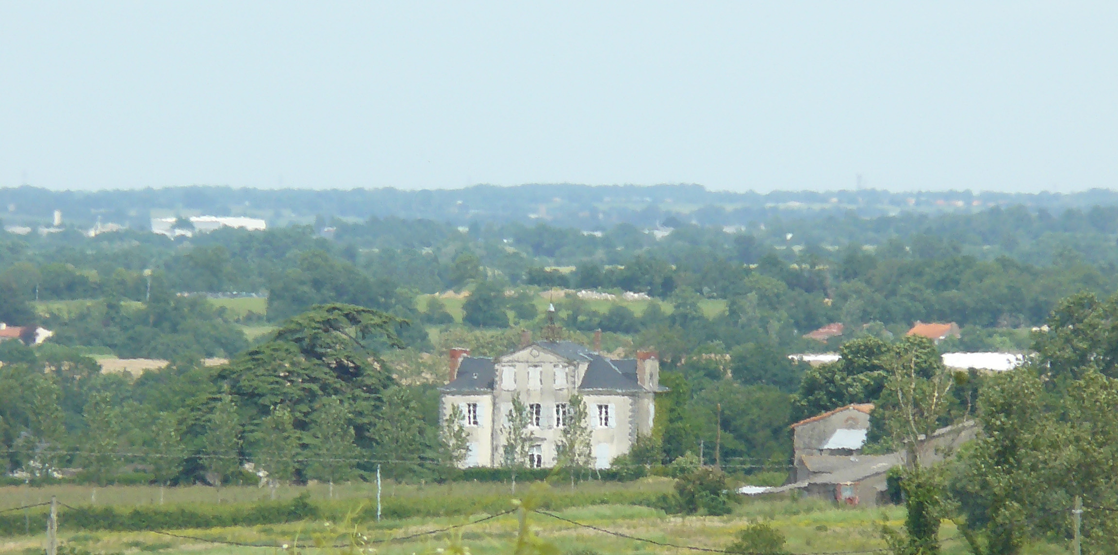 Ardraire castle, Remouillé, France